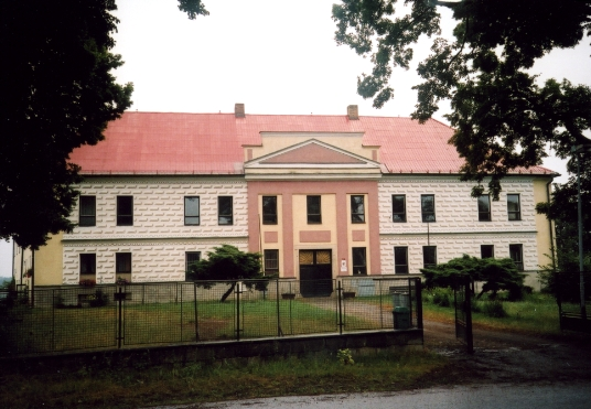 Village of Bozejov, Chateau, District Pelhrimov